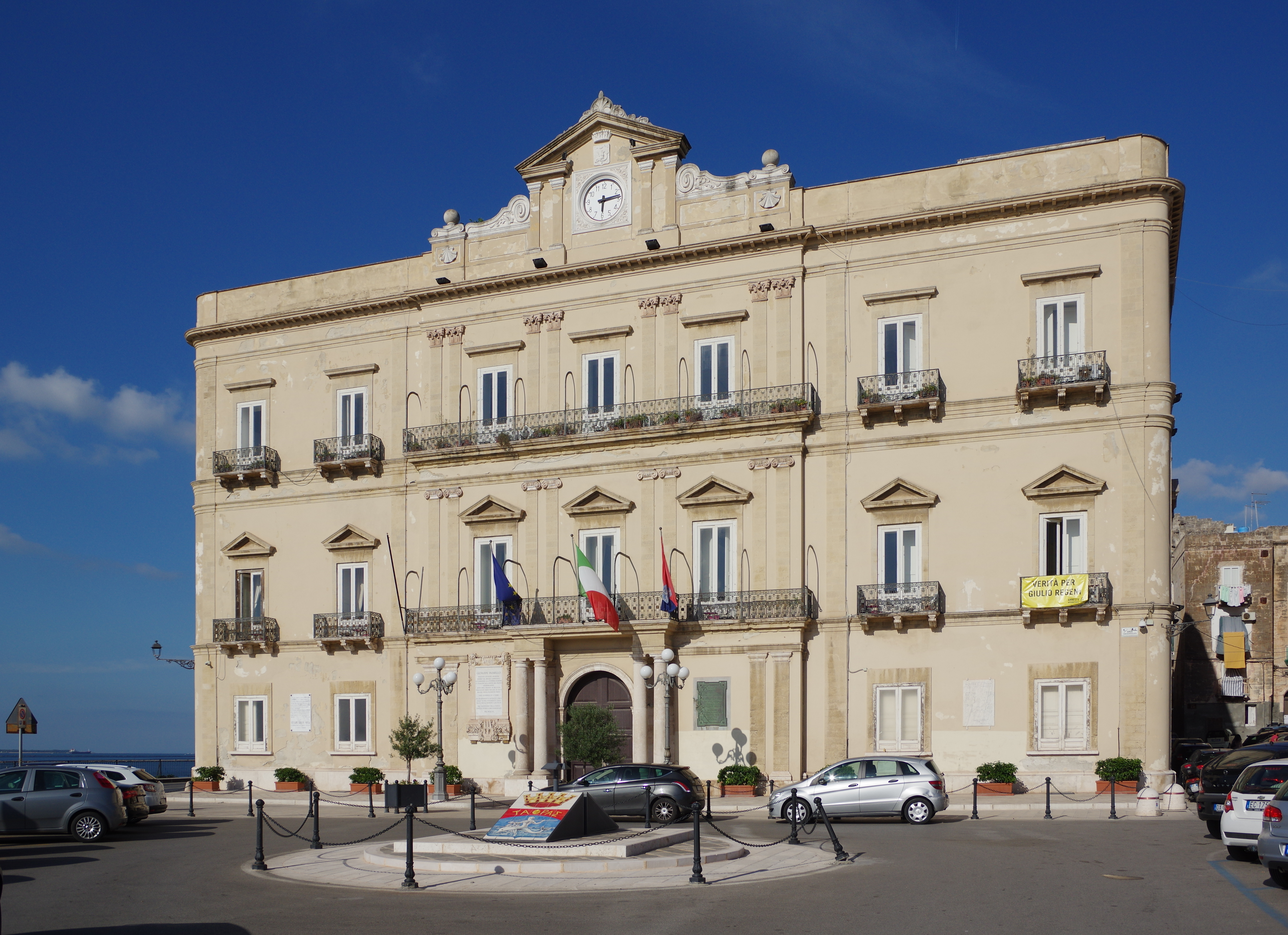 Italy, Taranto, town hall